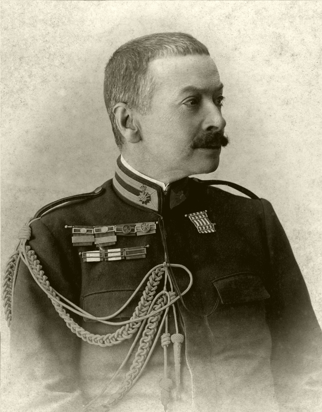 João Augusto Mouzinho de Albuquerque